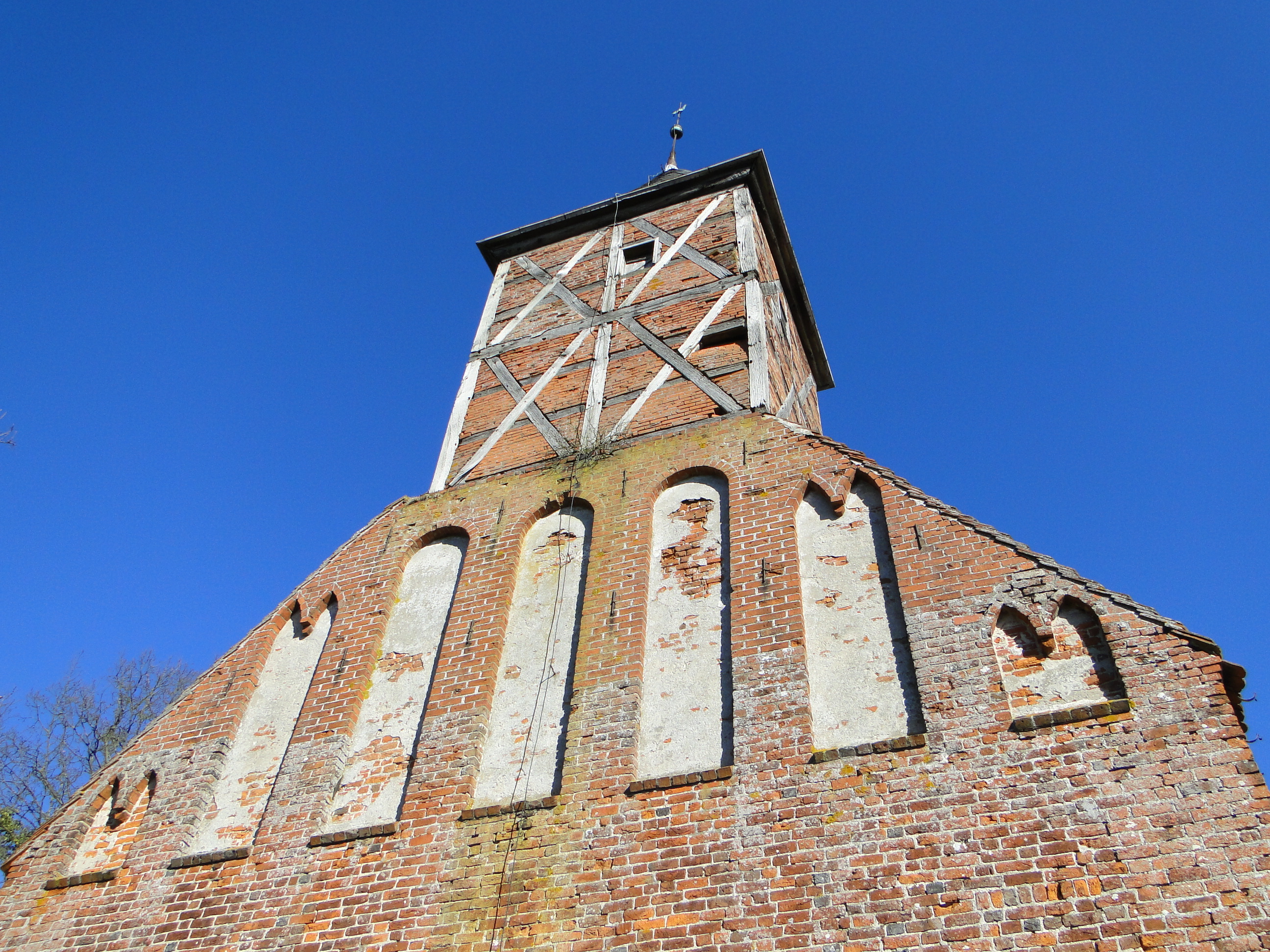 Church in Woosten, district Ludwigslust-Parchim, Mecklenburg-Vorpommern, Germany